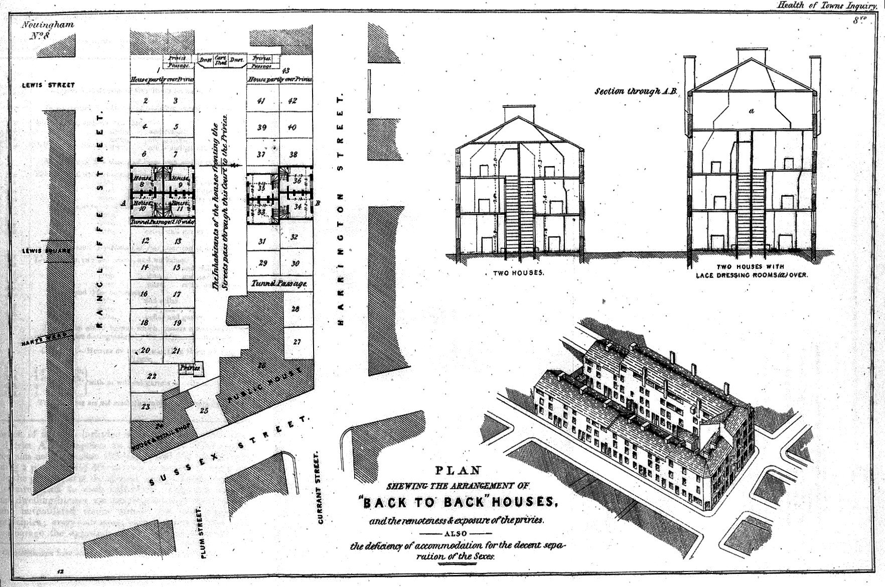 Plans an pictures of back-to-back houses in Nottingham. Rare Books Keywords: slums, england, nottingham